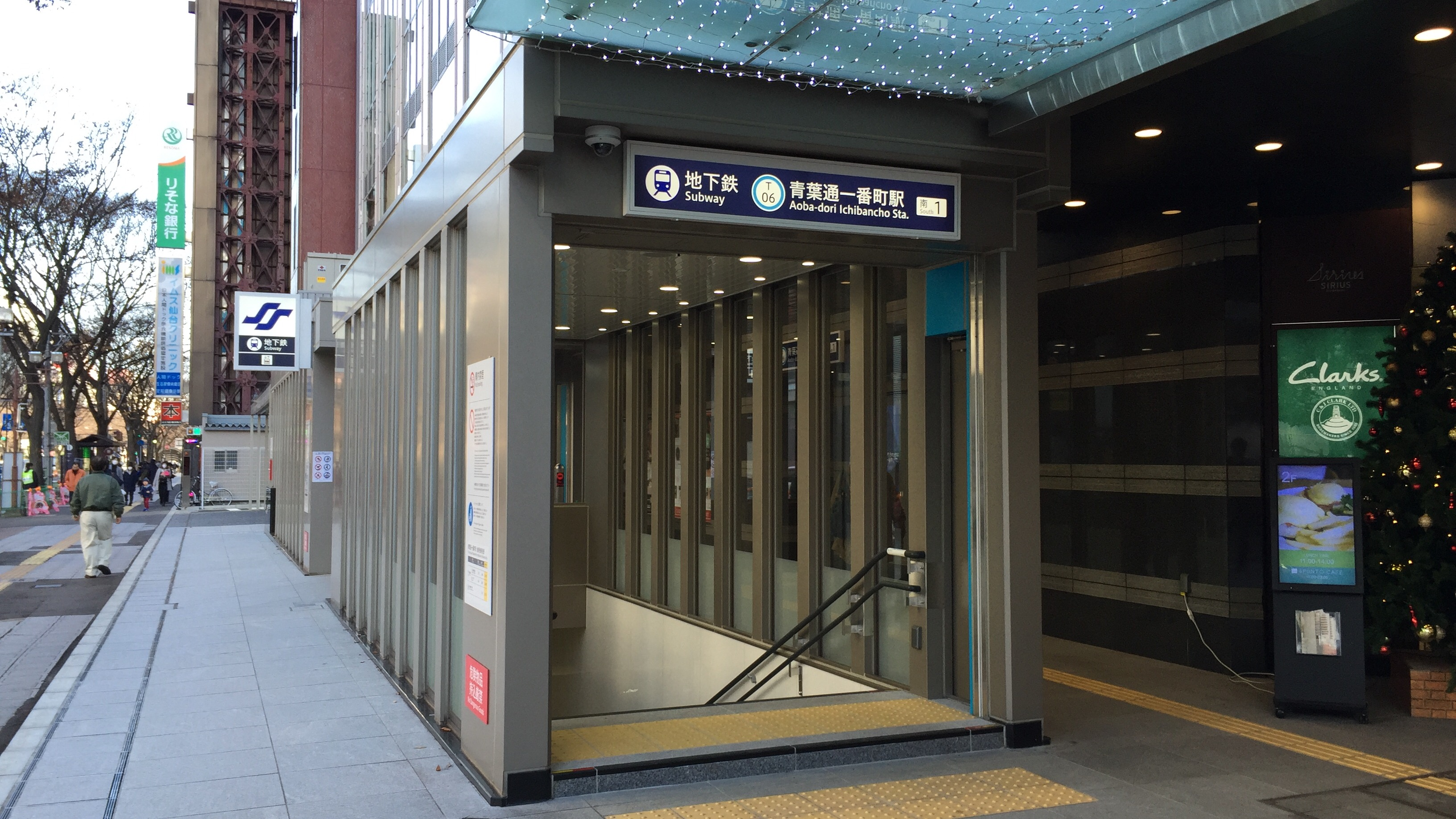 The "South 1" entrance to Aoba-dori Ichibancho Station on the Sendai Subway Tozai Line